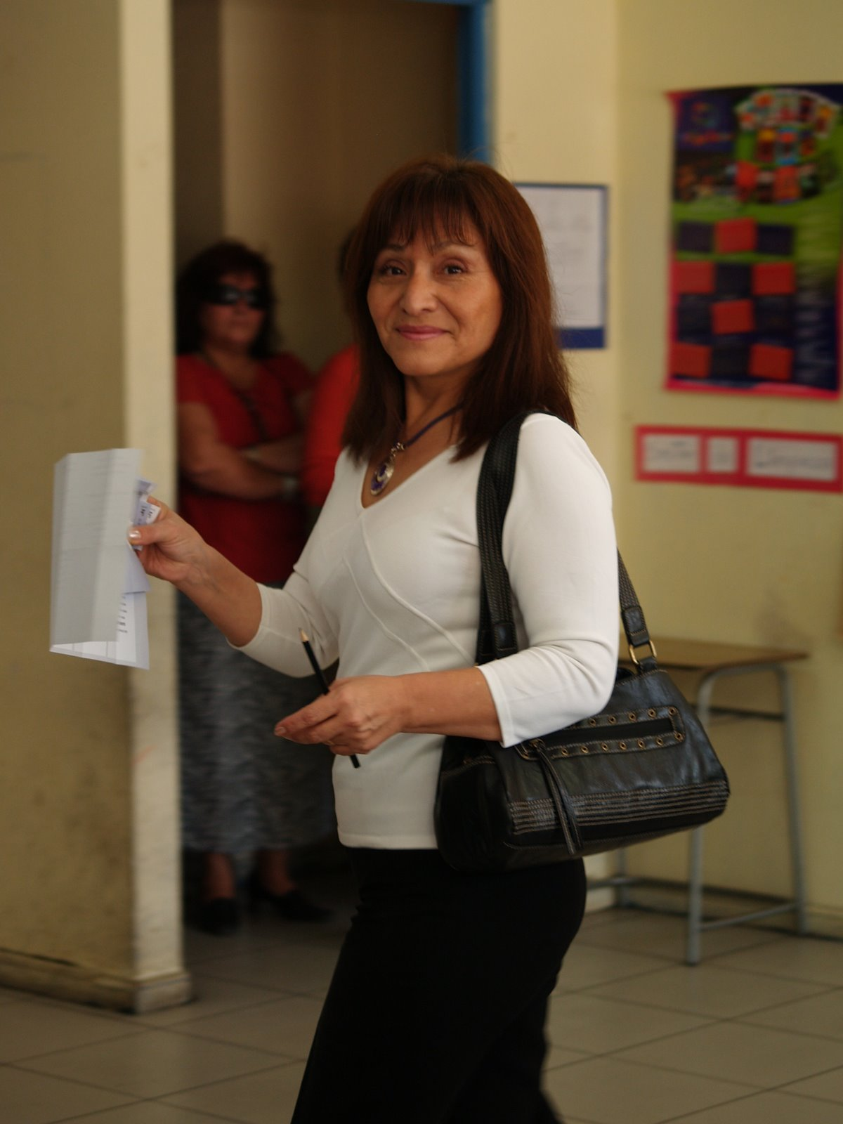 Marilen Cabrera PH's former president